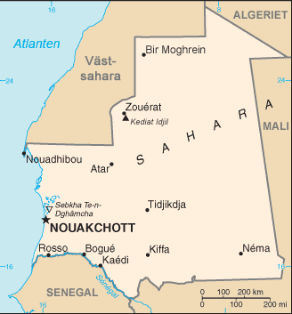 CIA map of Mauritania ([1])